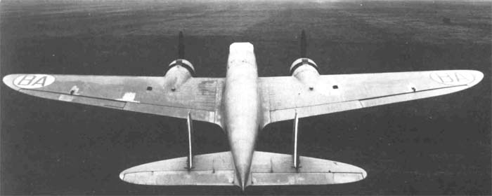 Italian Breda Ba.82 medium bomber prototype